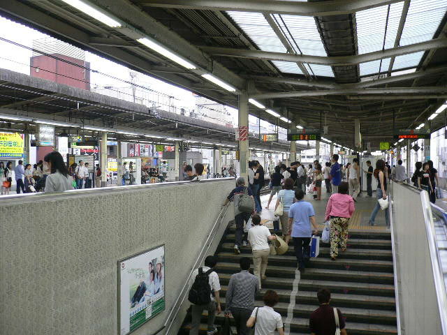 Kichijoji Station (吉祥寺駅), Musasino C, Tokyo M.